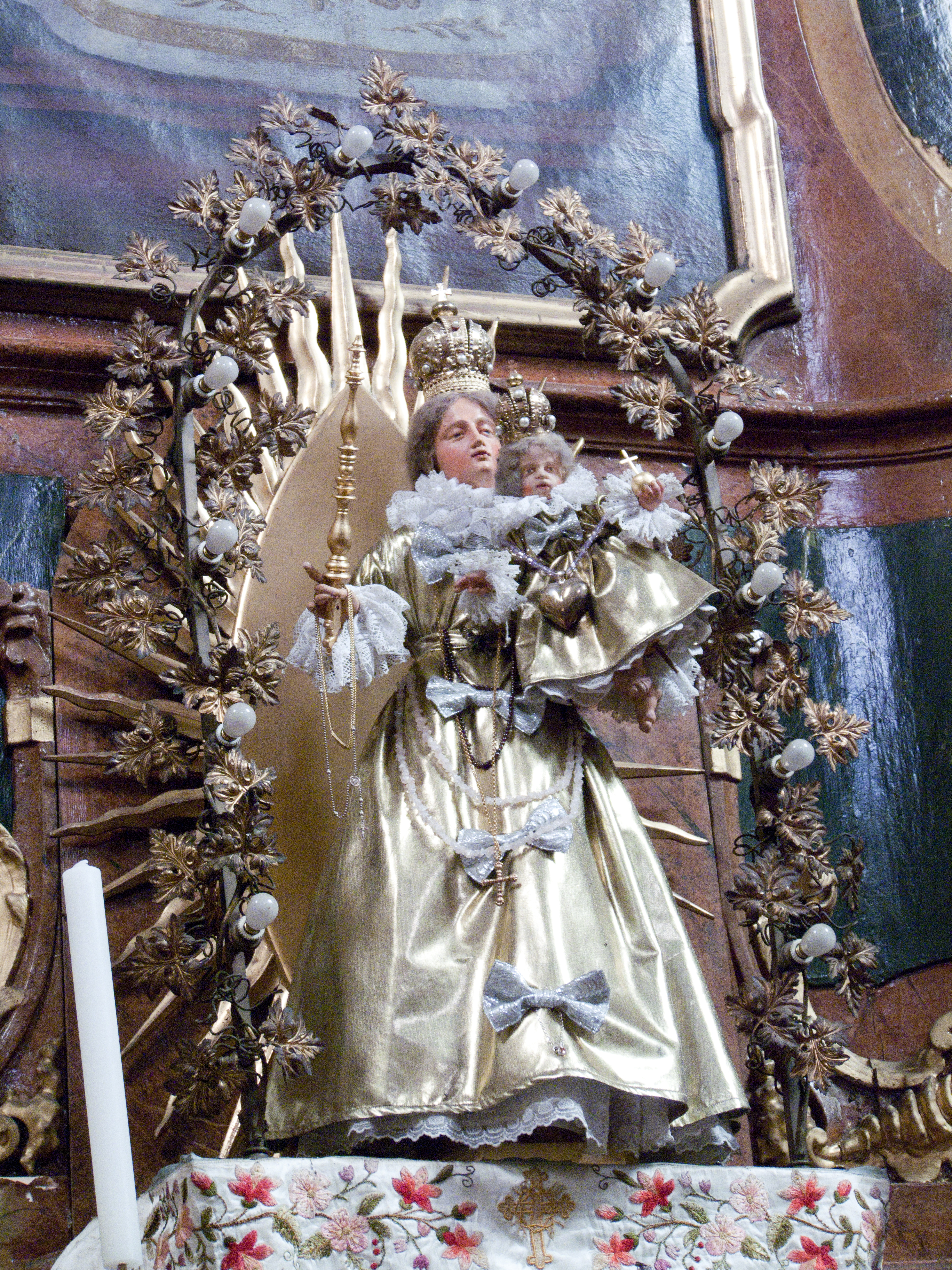 Virgin Mary statue in the Nativity of Mary Chapel in the town of Česká Kamenice, (Czech Republic)